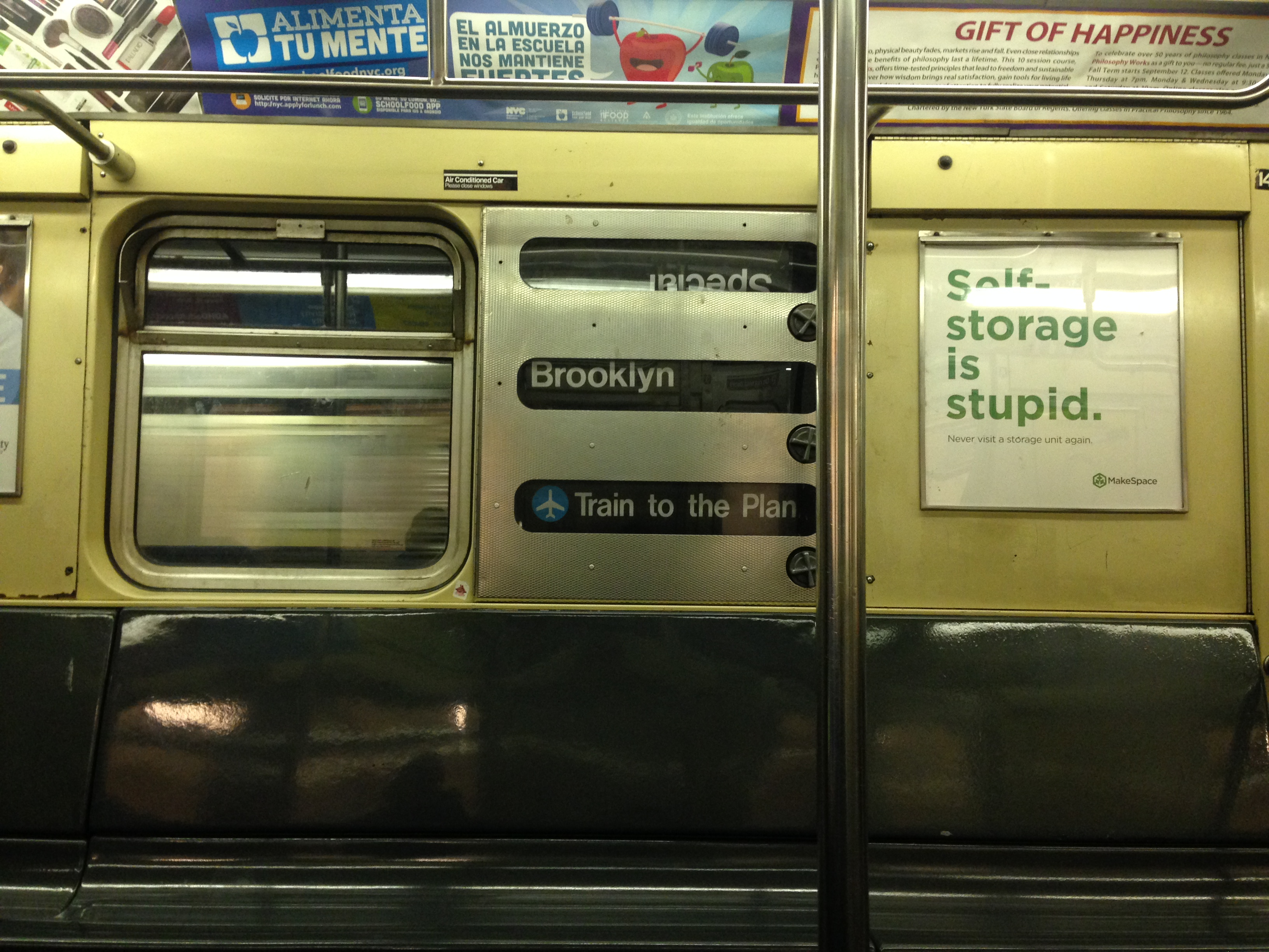 An R32 J train with the "Train to the Plane" sign displaying.